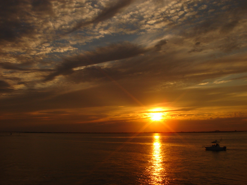 Took it myself on a day in late Summer, 2007. It's a view of the Great South Bay at sunset.